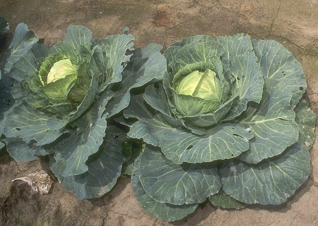 Brassica oleracea viridis Cabbage at a market near Greenville, Mississippi. Image #96cs1134/CD1468-014.